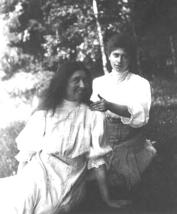 Anna Strunsky Walling (1877-1964) and her sister Rose Strunsky Lorwin (1884-1963): "Anna Strunsky and her sister Rose, about the time Rose was an undergraduate at Stanford University"